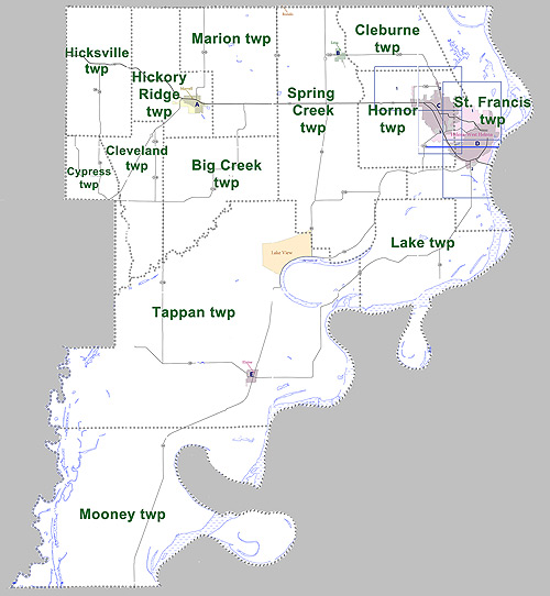 This is a map showing townships in Phillips County, Arkansas. Modified from US census map (for 2010 census) for Phillips County, Arkansas There is a larger version of this map available.